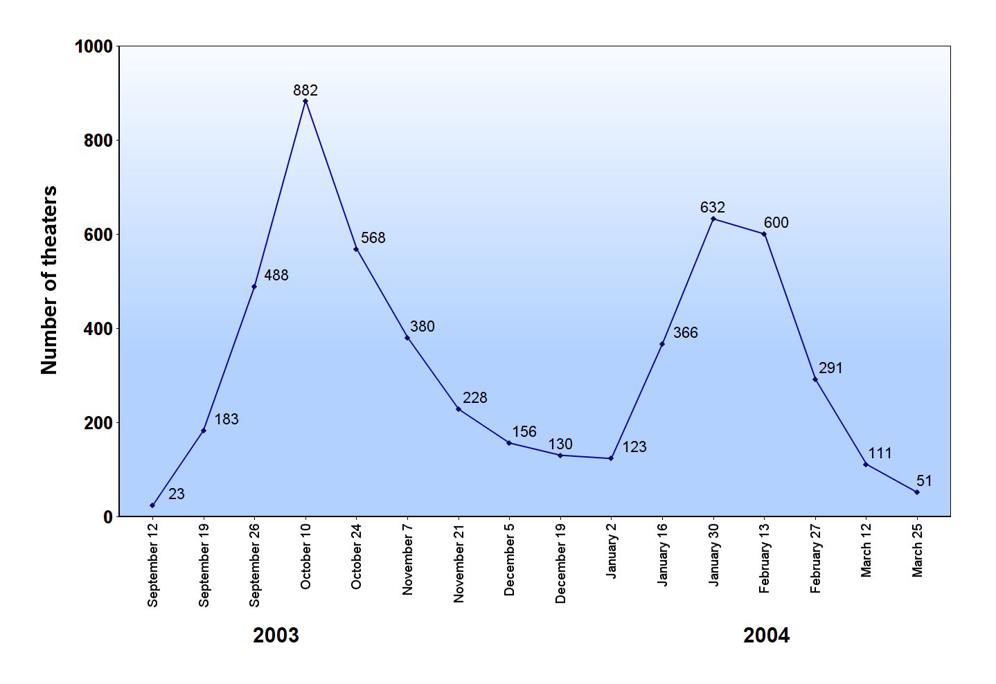 Graph showing the number of theaters in which the film Lost in Translation appeared throughout 2003 and 2004 in the United States, Canada, and Puerto Rico, according to Box Office Mojo.